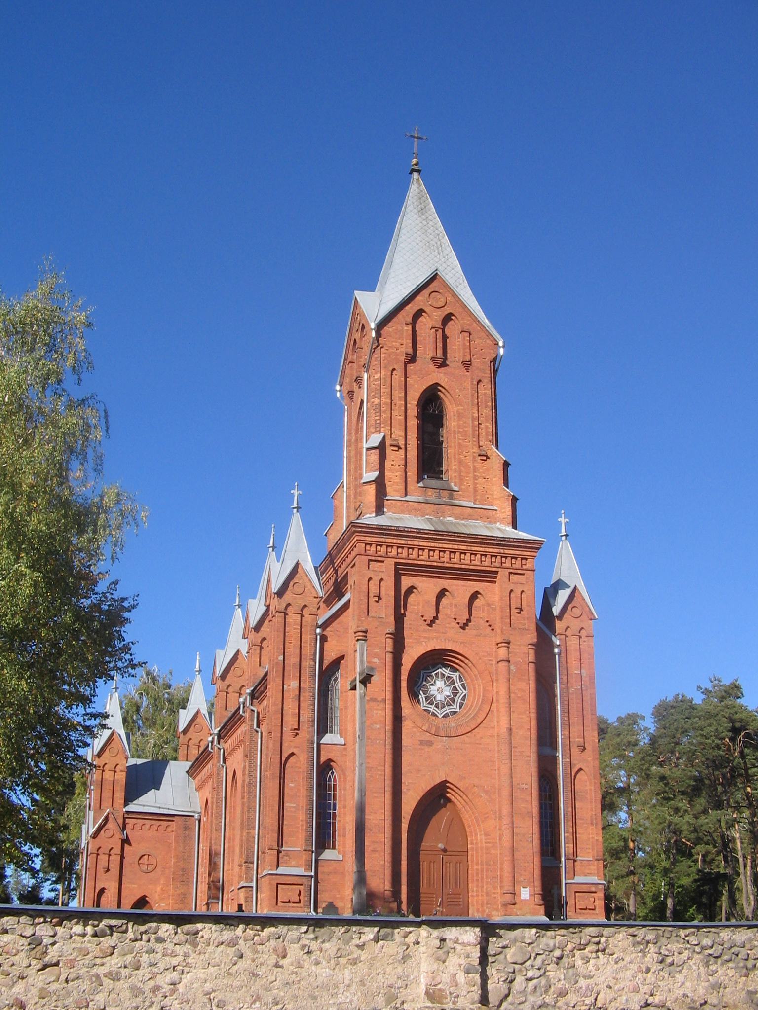 Church of Saint Alex. Ivyanets, Belarus.